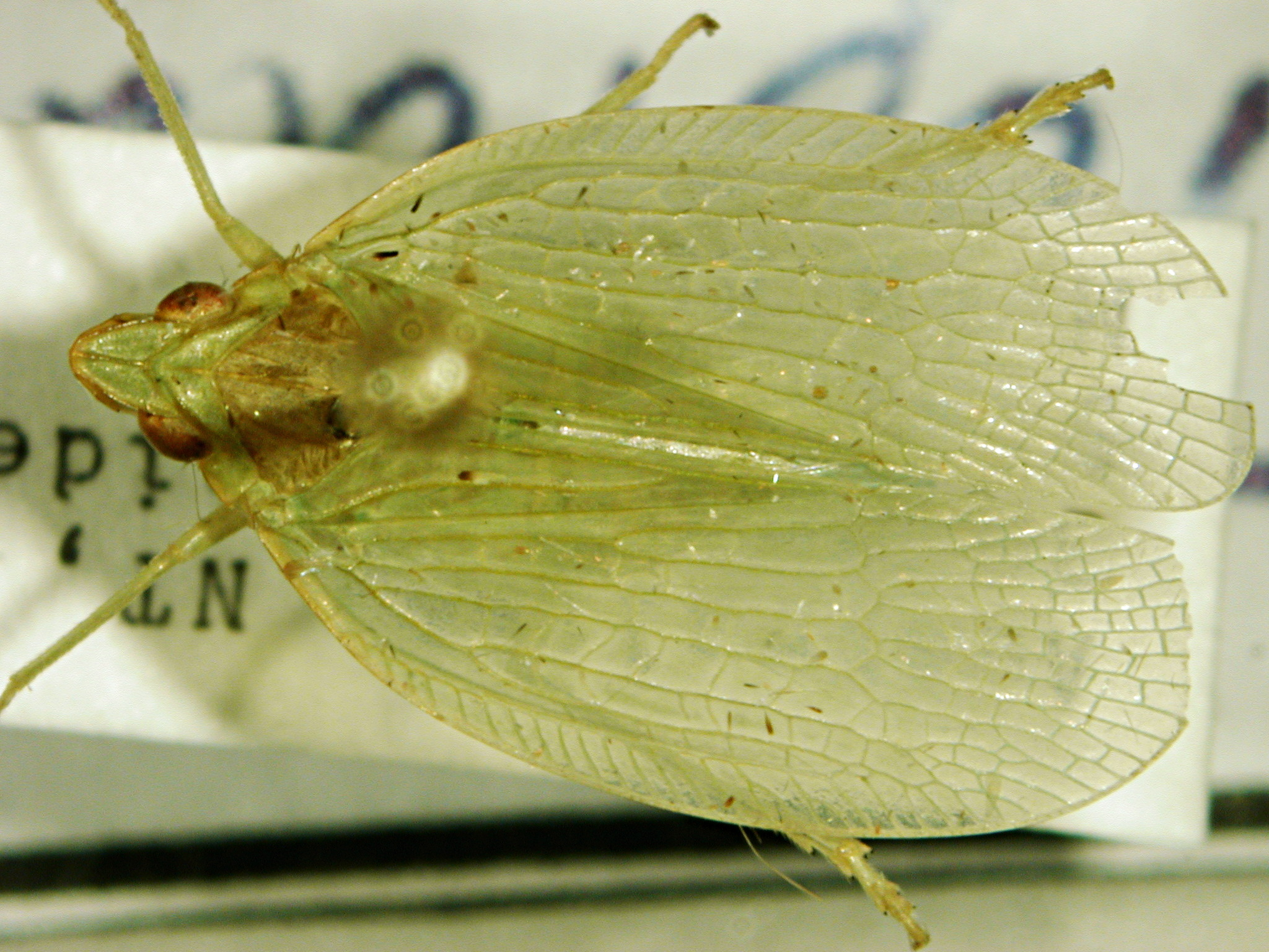 Taken in the Zoologische Staatssammlung München